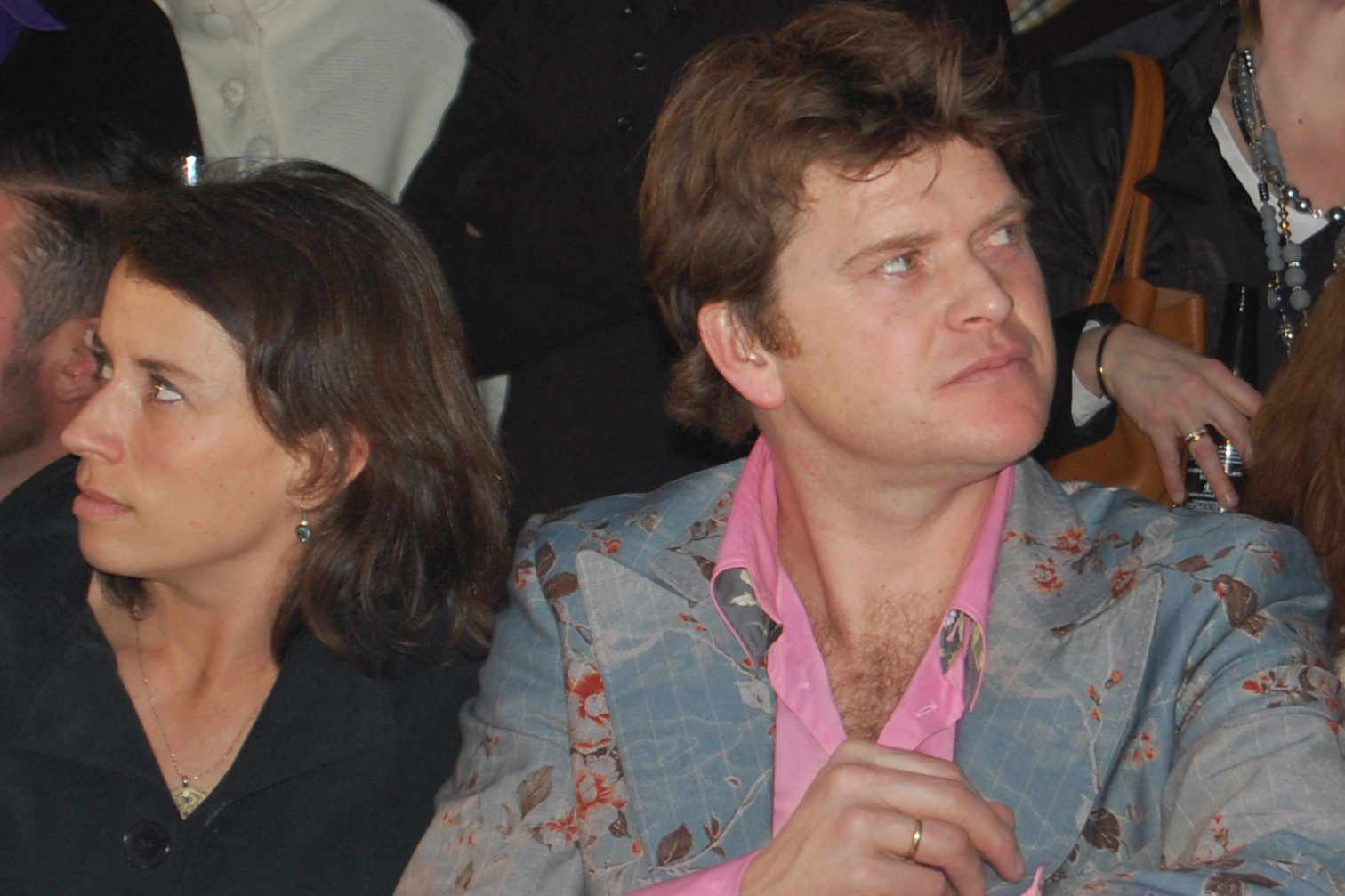 Beau van Erven Dorens with his wife at the fashionshow Hans Ubbink in Paradiso, Amsterdam